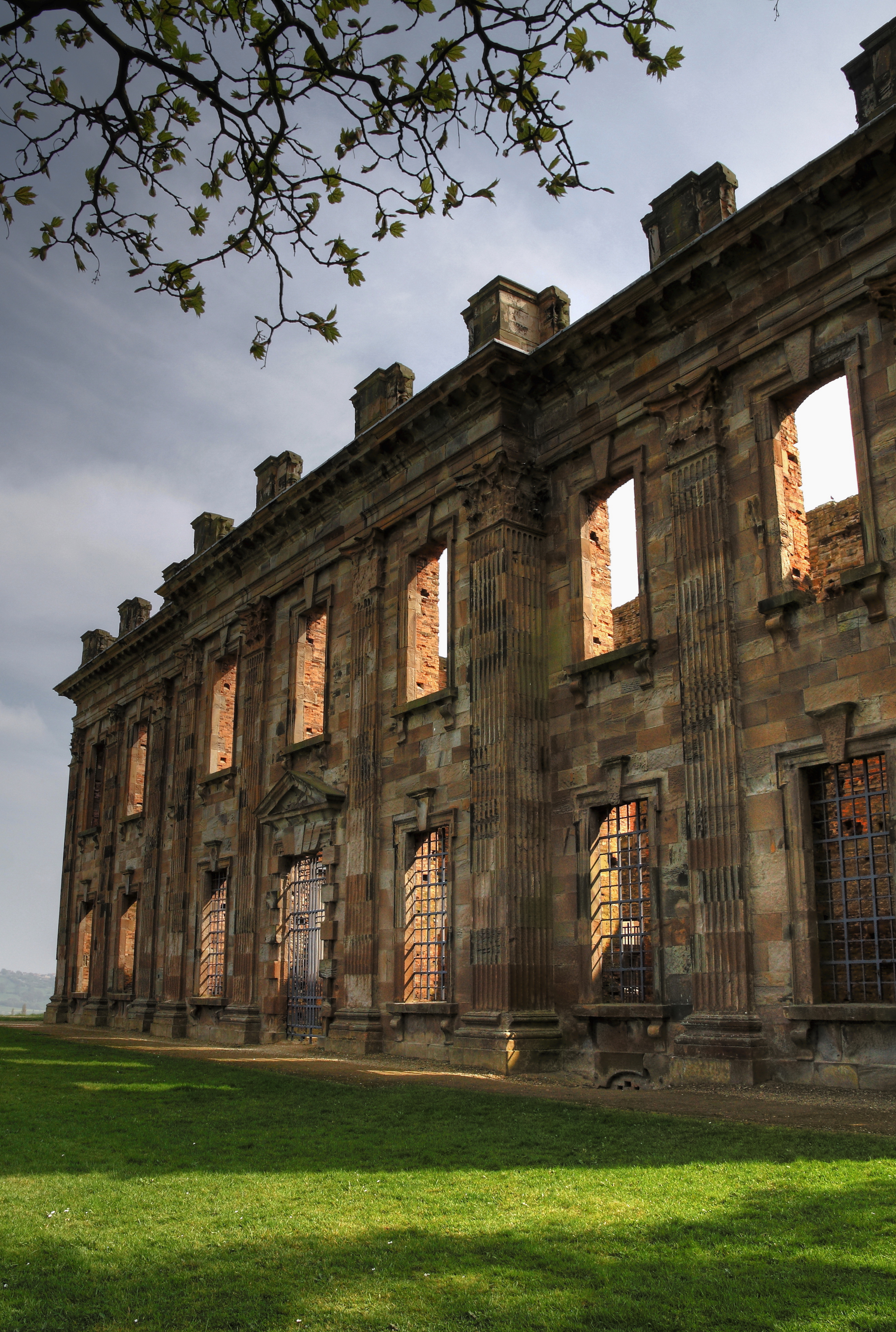 Sutton Scarsdale Hall in Derbyshire was built by the 4th Earl of Scarsdale before he died childless in the 1730s